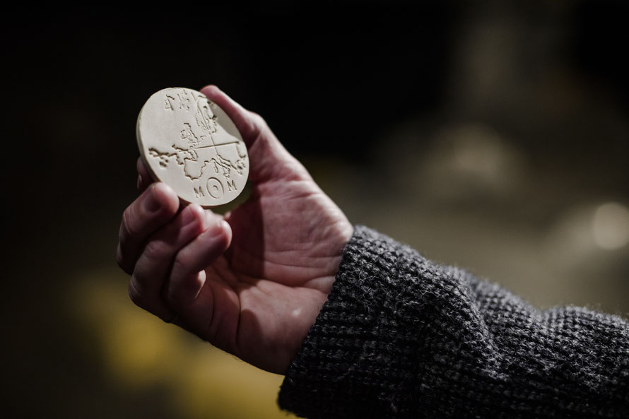 Handling the Memory of Mankind Token